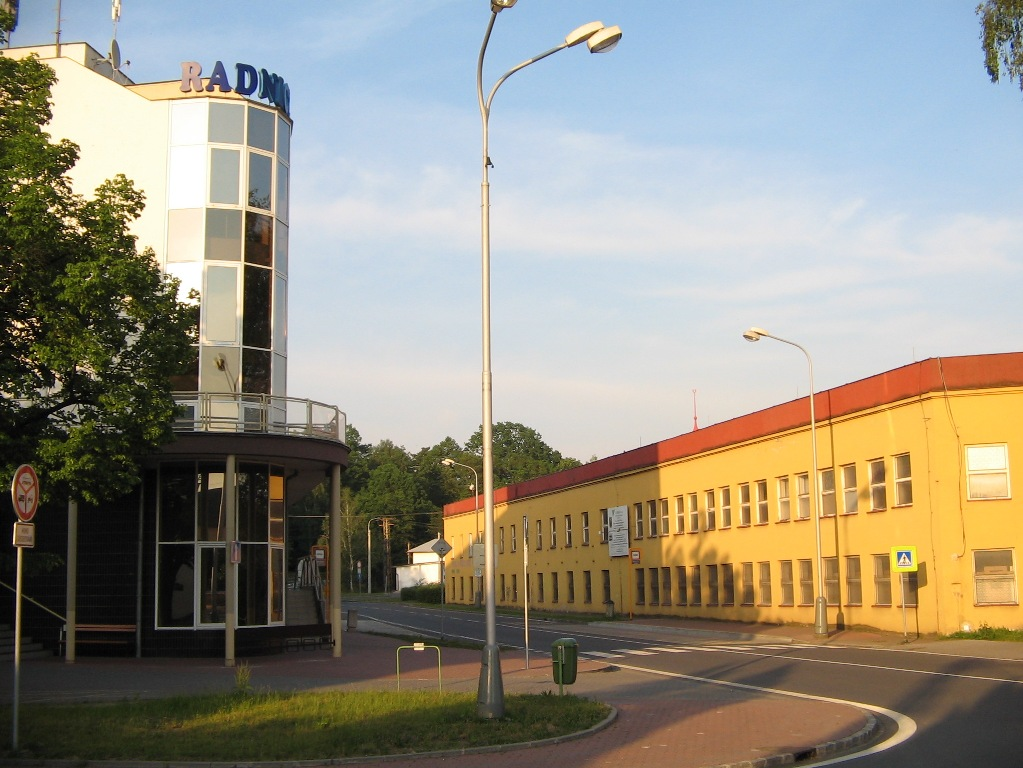 Townhall in Poruba, Ostrava and The Carman Factory